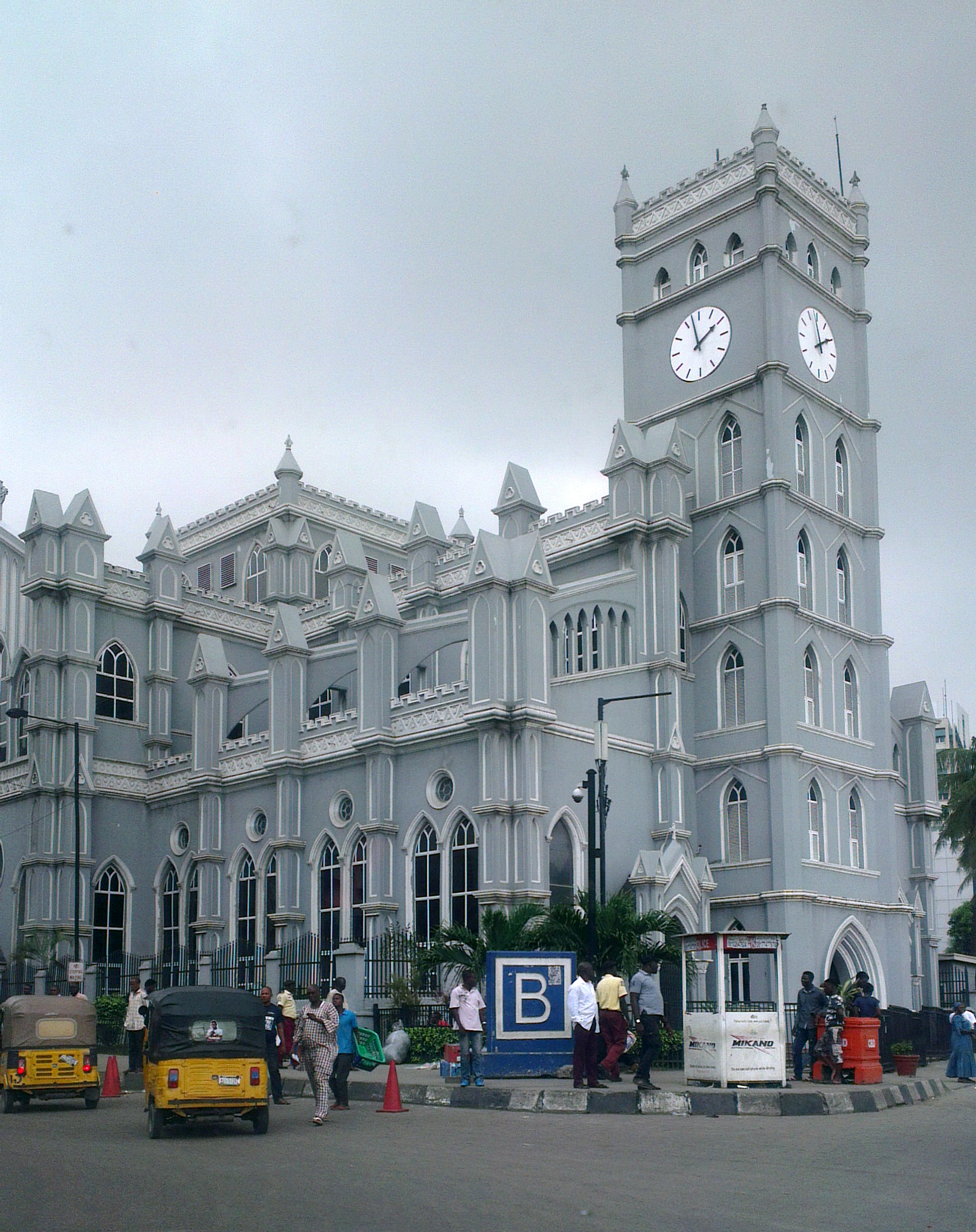 Anglican cathedral in Lagos, Nigeria This is an image of music and dance from Nigeria